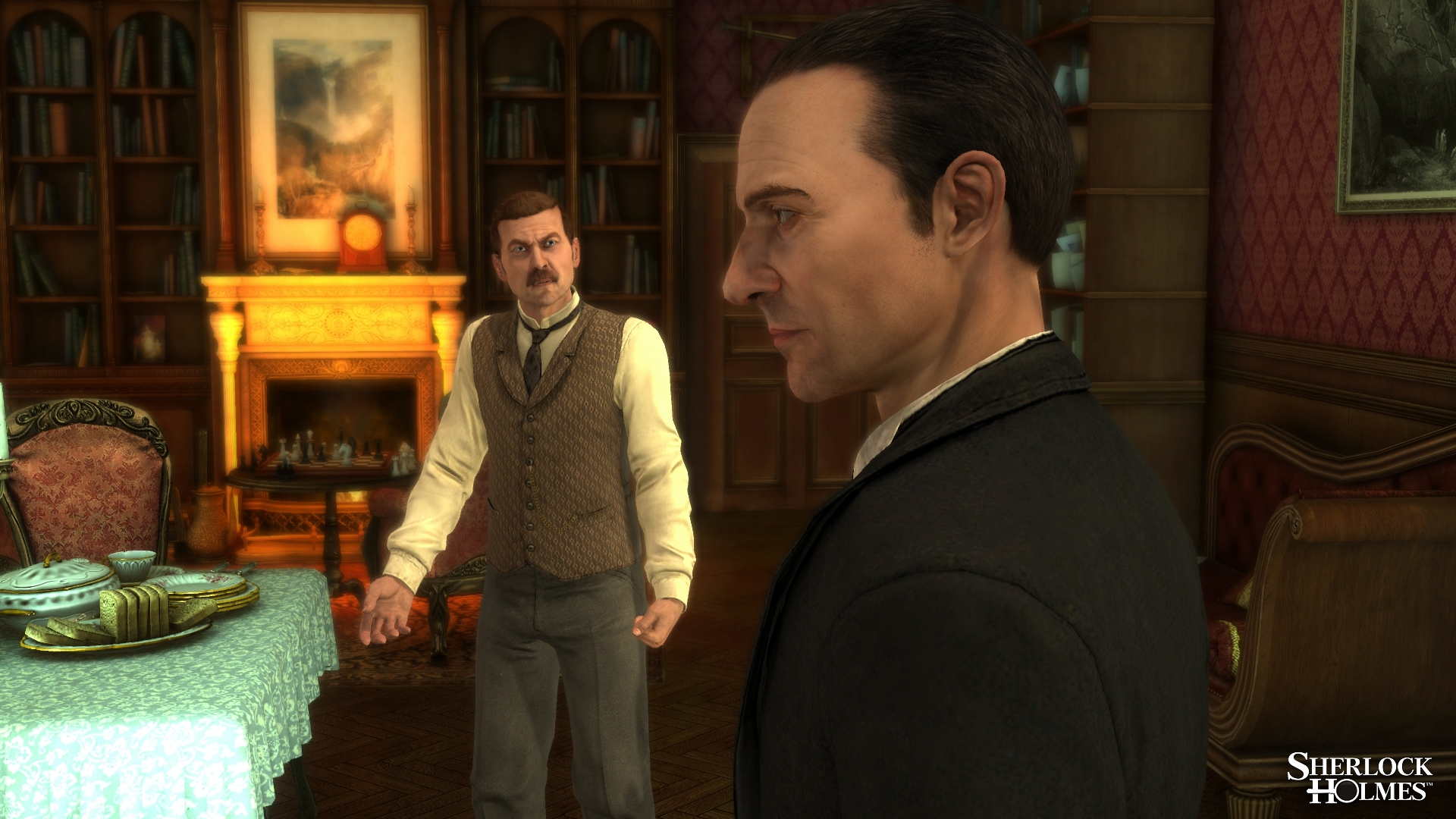 Screenshot from The Testament of Sherlock Holmes, a video game by Frogwares.